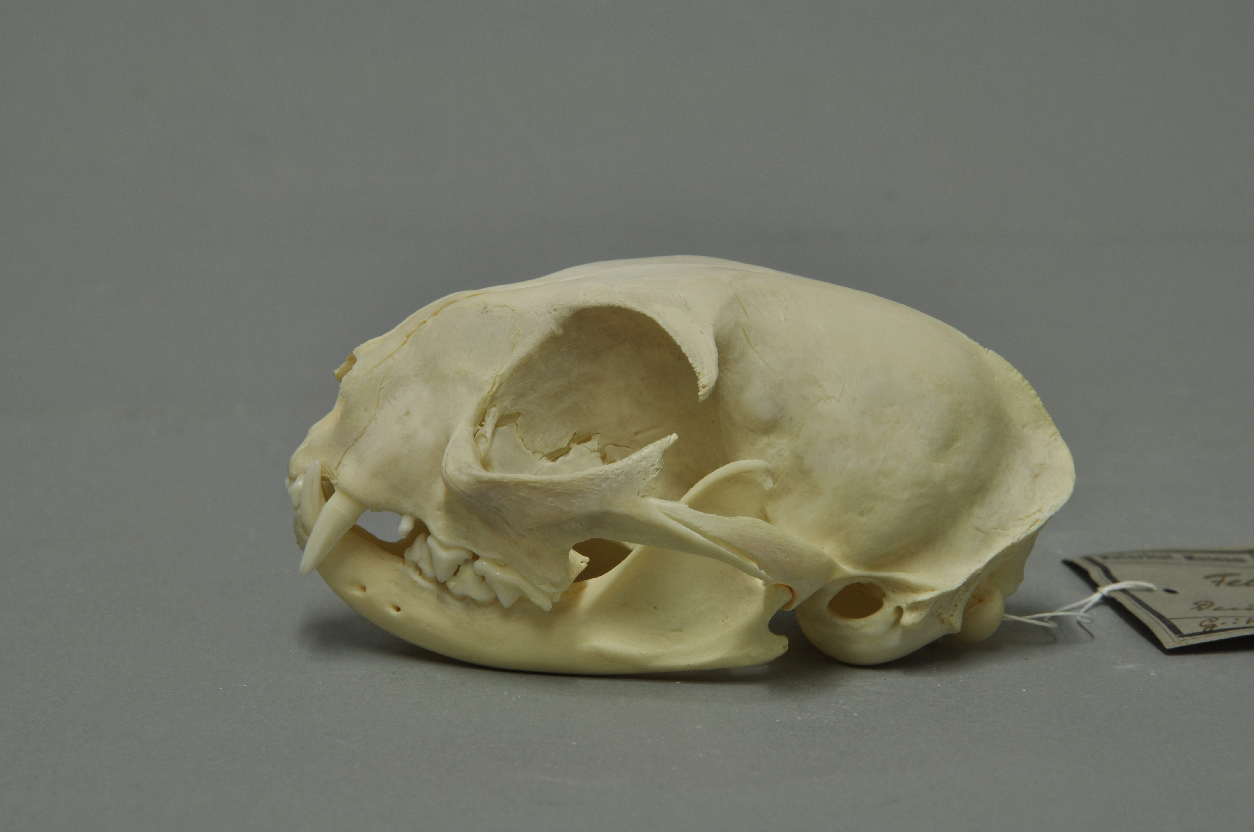 wildcat Felis silvestris, skull, Coll. Museum Wiesbaden